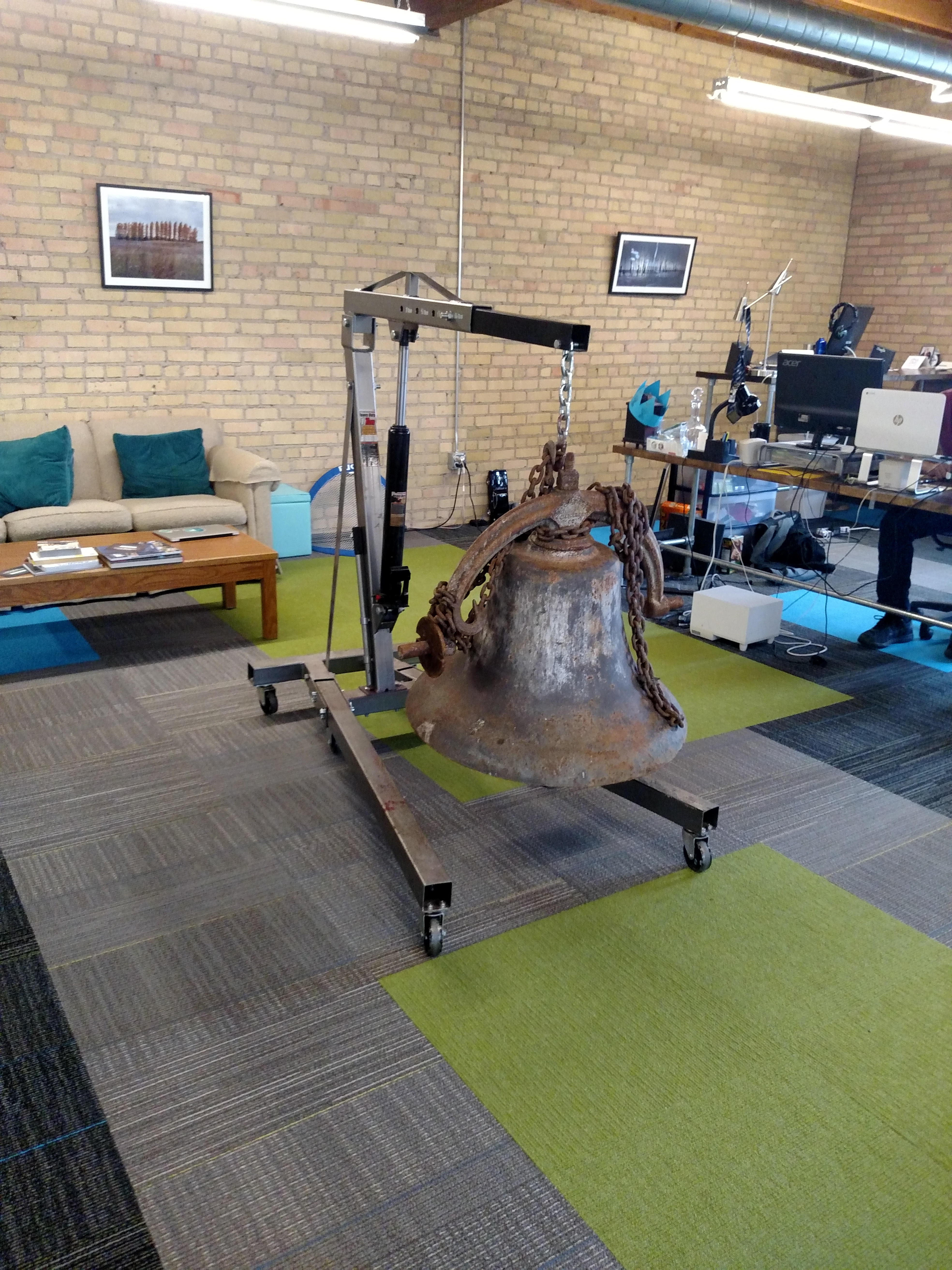 The bell being moved into the offices of Myriad Mobile in Fargo, ND.